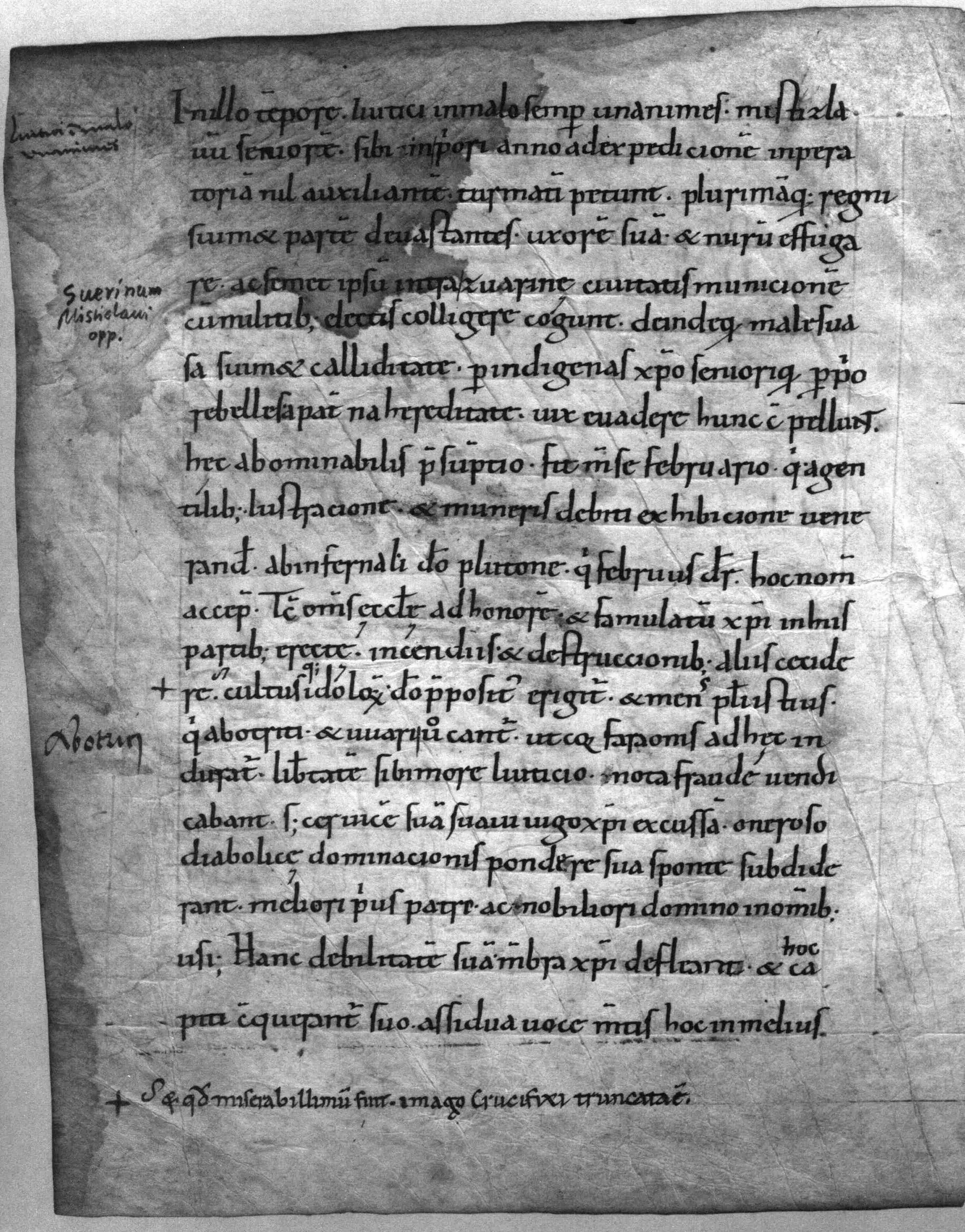 Page 178b of Die Dresdner Handschrift der Chronik des Bischofs Thietmar von Merseburg, mit Unterstützung der Generaldirektion der Kgl. Sächs. Sammlungen für Kunst und Wissenschaft, der König- Johann-Stiftung und der Zentraldirektion der Monumenta Germaniae historica in Faksimile hrsg. [von] (Ludwig Schmidt). Dresden: Tamme 1905